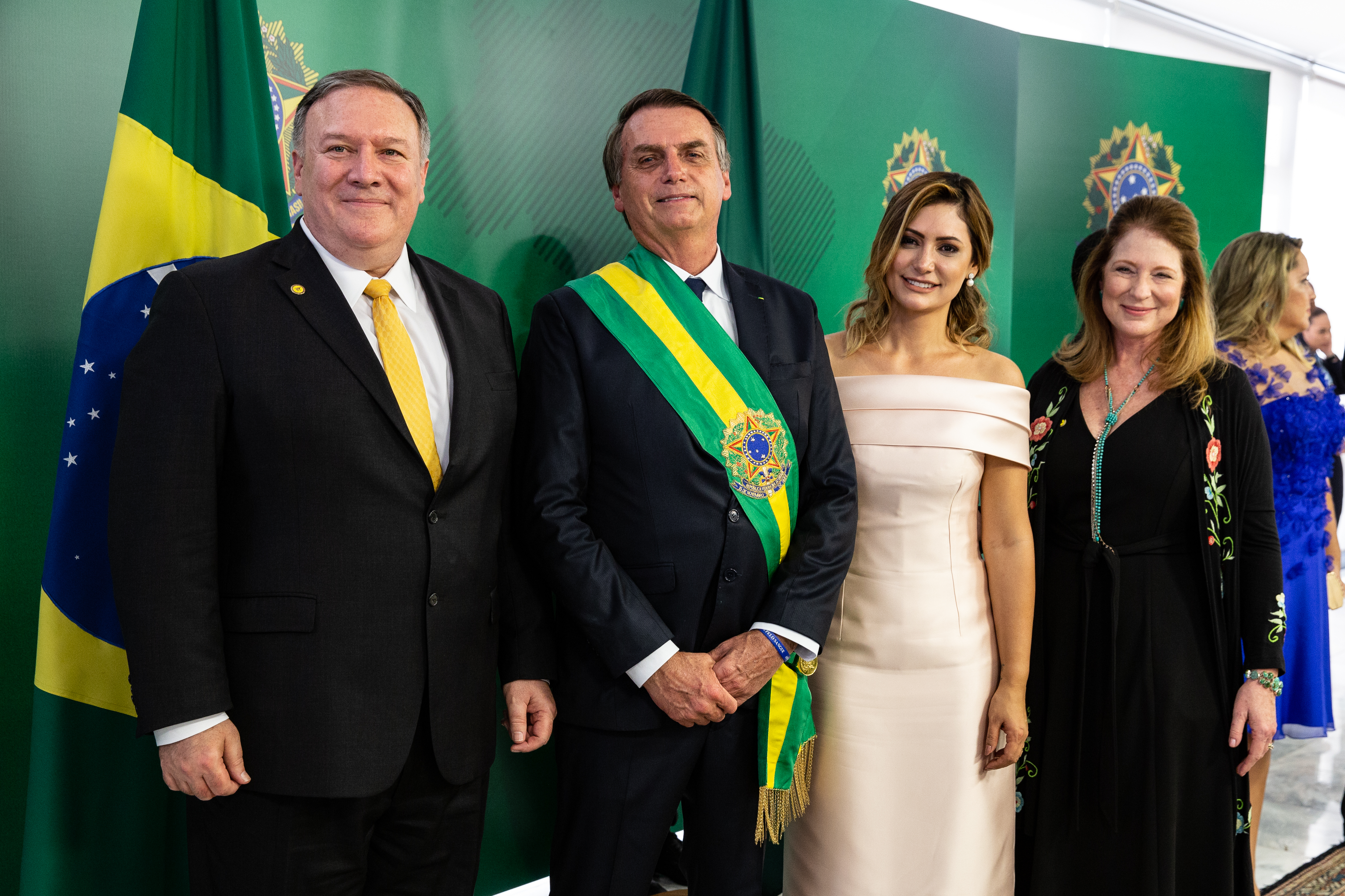 The U.S. Secretary of State Michael Pompeo arrives at Planalto Palace accompanied by his wife, Mrs. Pompeo, to participate in President Jair Bolsonaro's inauguration ceremony. (Photo: US Embassy)